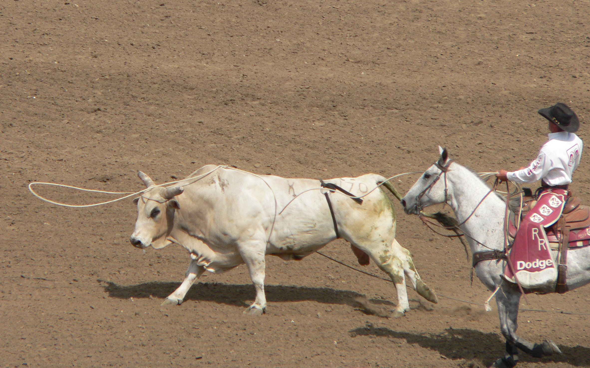 Photograph taken during the California rodeo, Salinas, 2006 edition